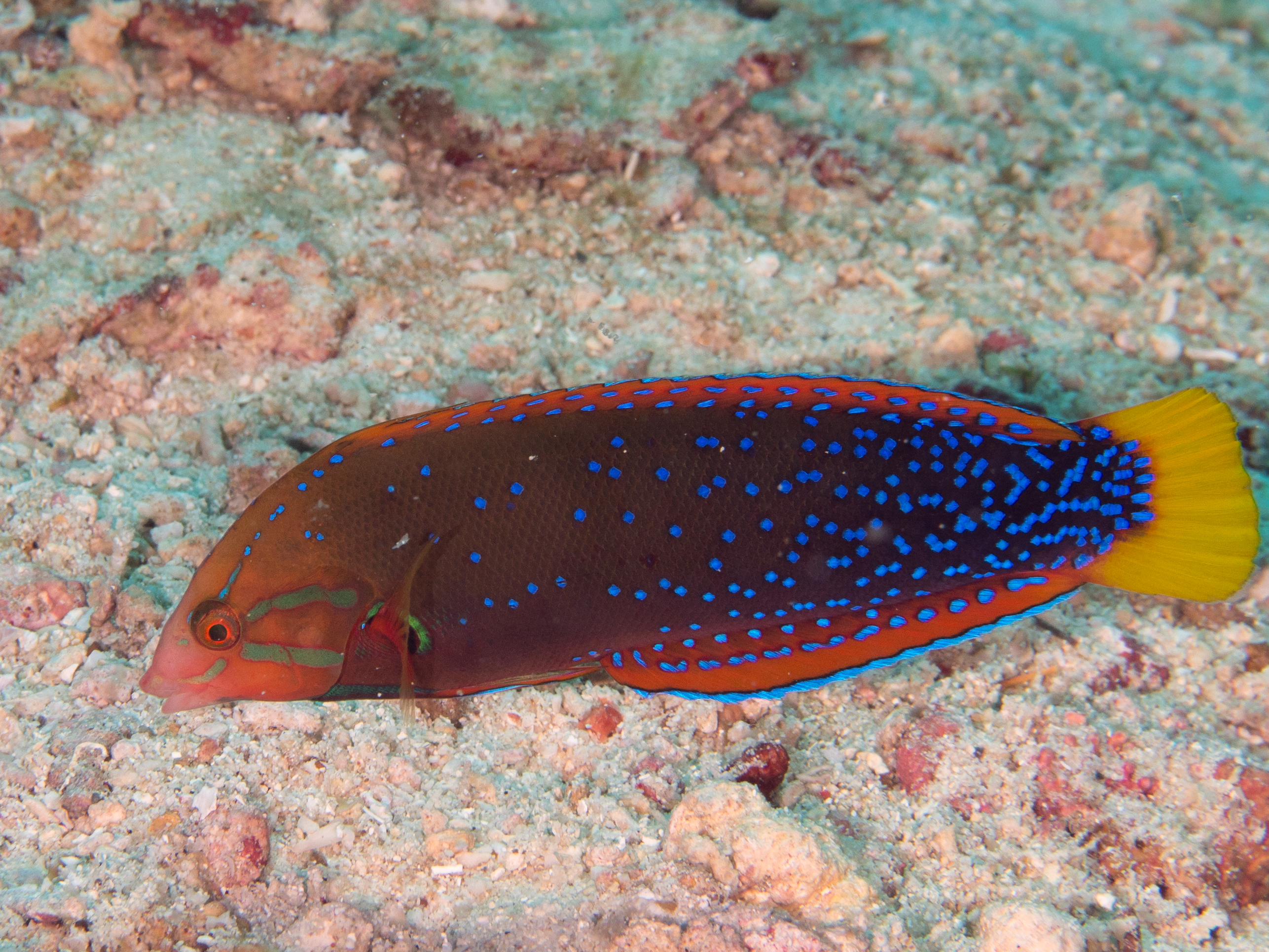 Lembeh, Indonesia - Yellowtail coris (Coris gaimard)